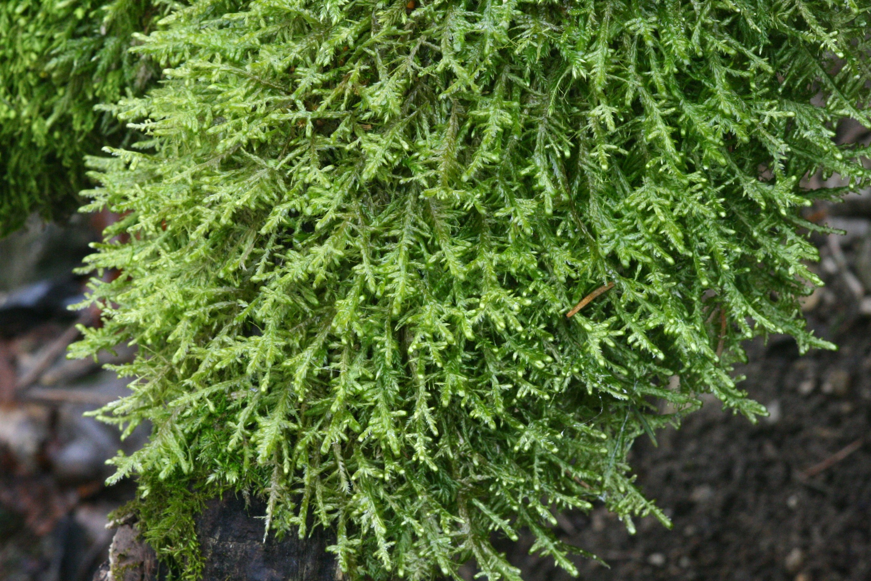 Neckera complanata